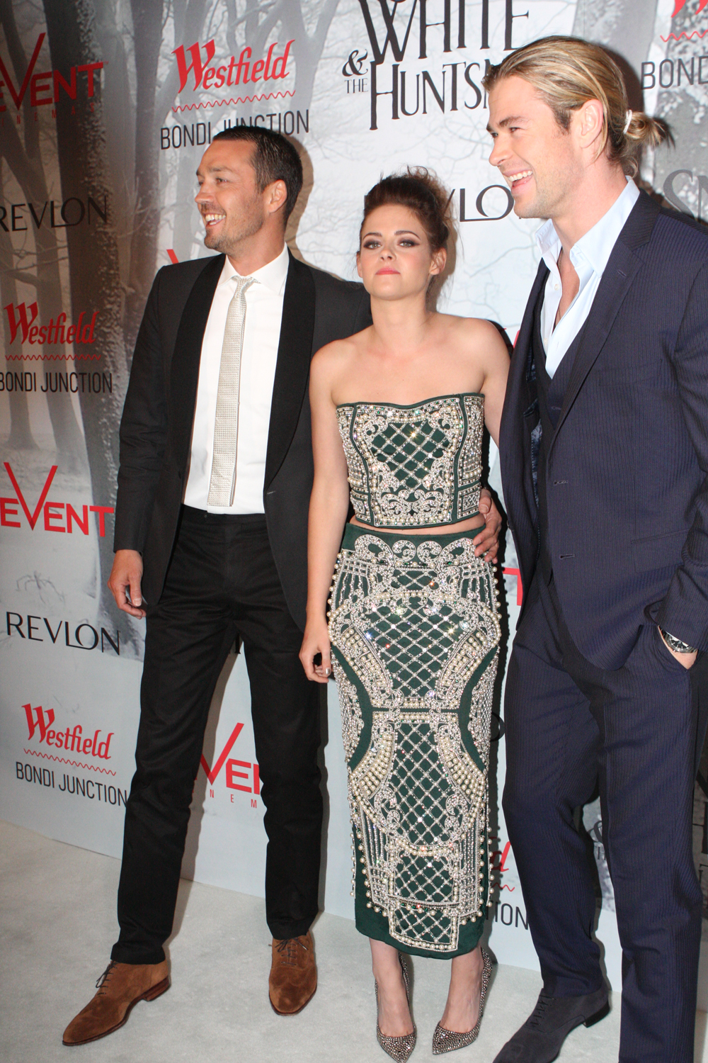 Kristen Stewart and Chris Hemsworth attend the Sydney premiere of Snow White & the Huntsman.